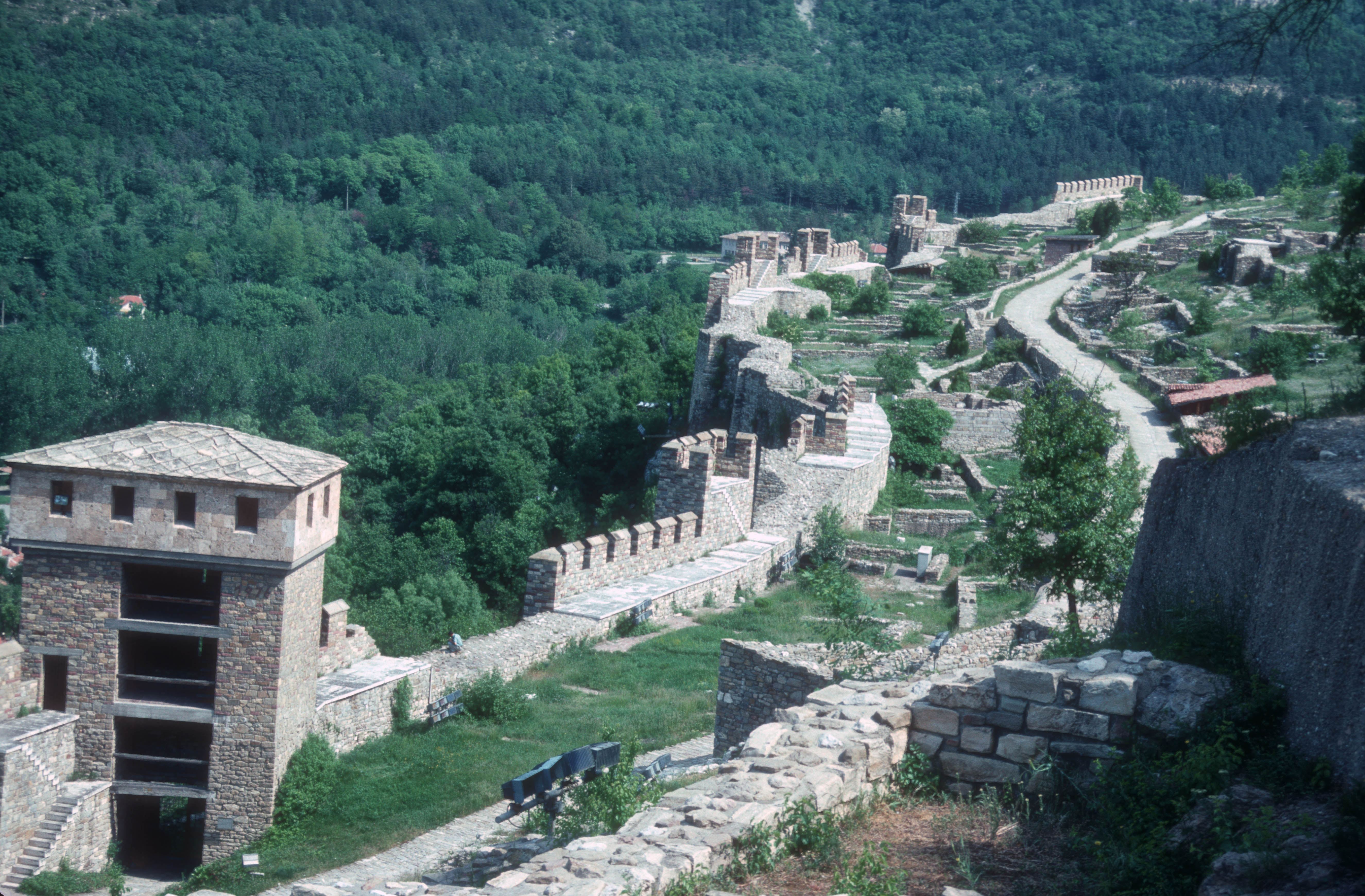 THIS PICTURES SHOW THE GREAT EXTENT OF THE CASTLE WALLS WHICH SURROUNDED THE ROYAL PALACE ON THE HILL